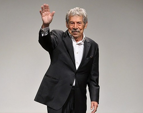 tenth anniversary of Iranian association of theatre critics and writers - 30 September 2011